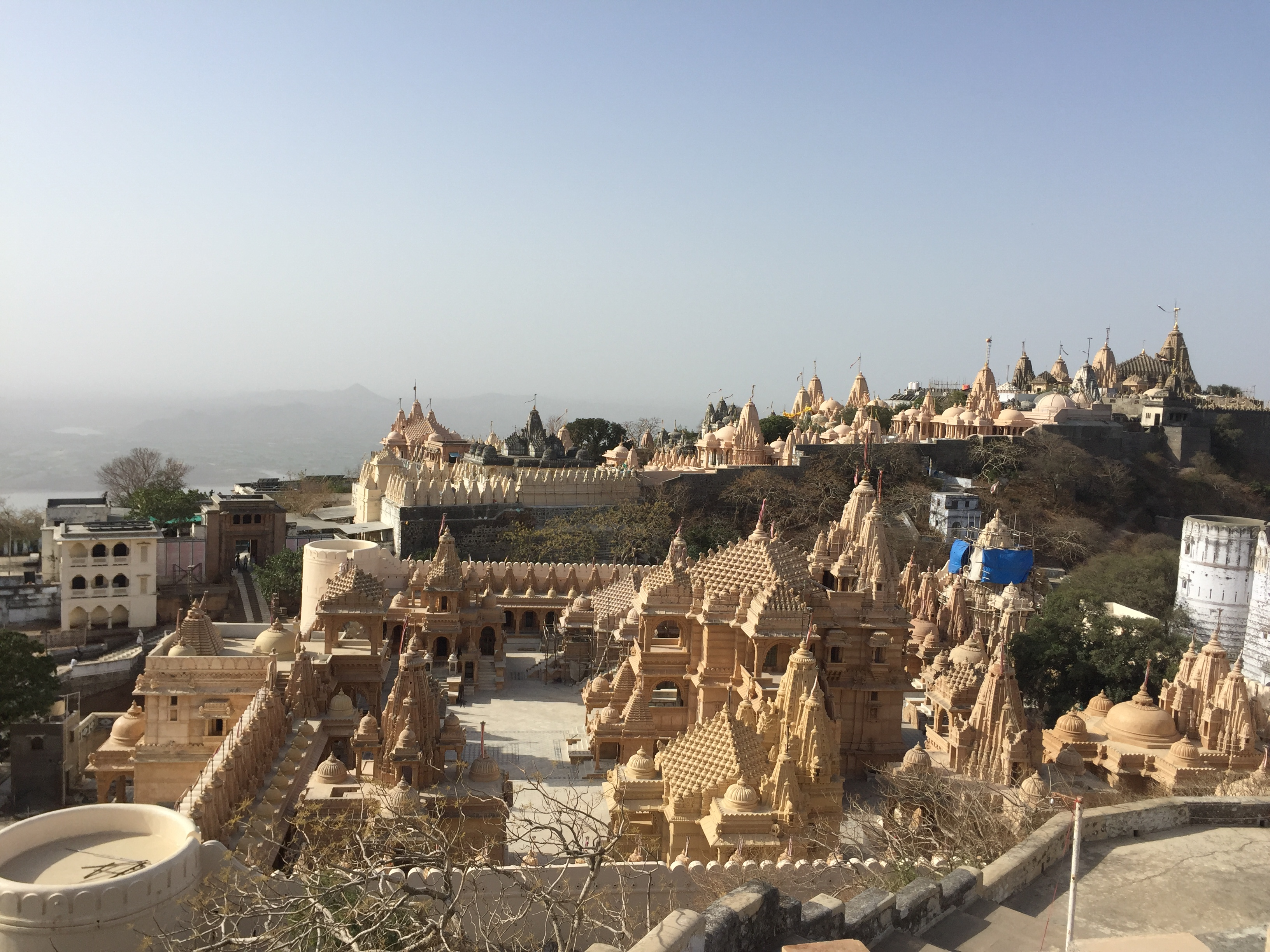 This image was taken at Palitana,Gujarat,India